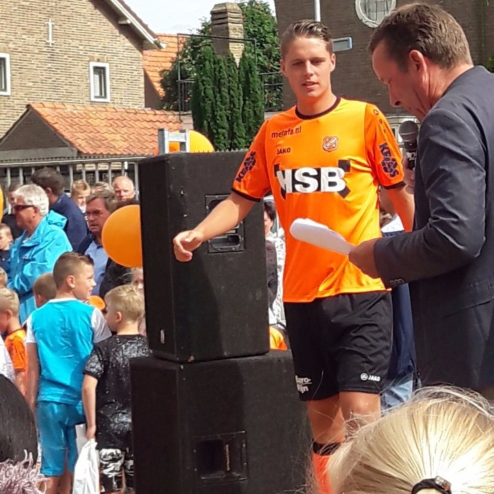 Joey Veerman at FC Volendam's open day for the 2017/18 season.